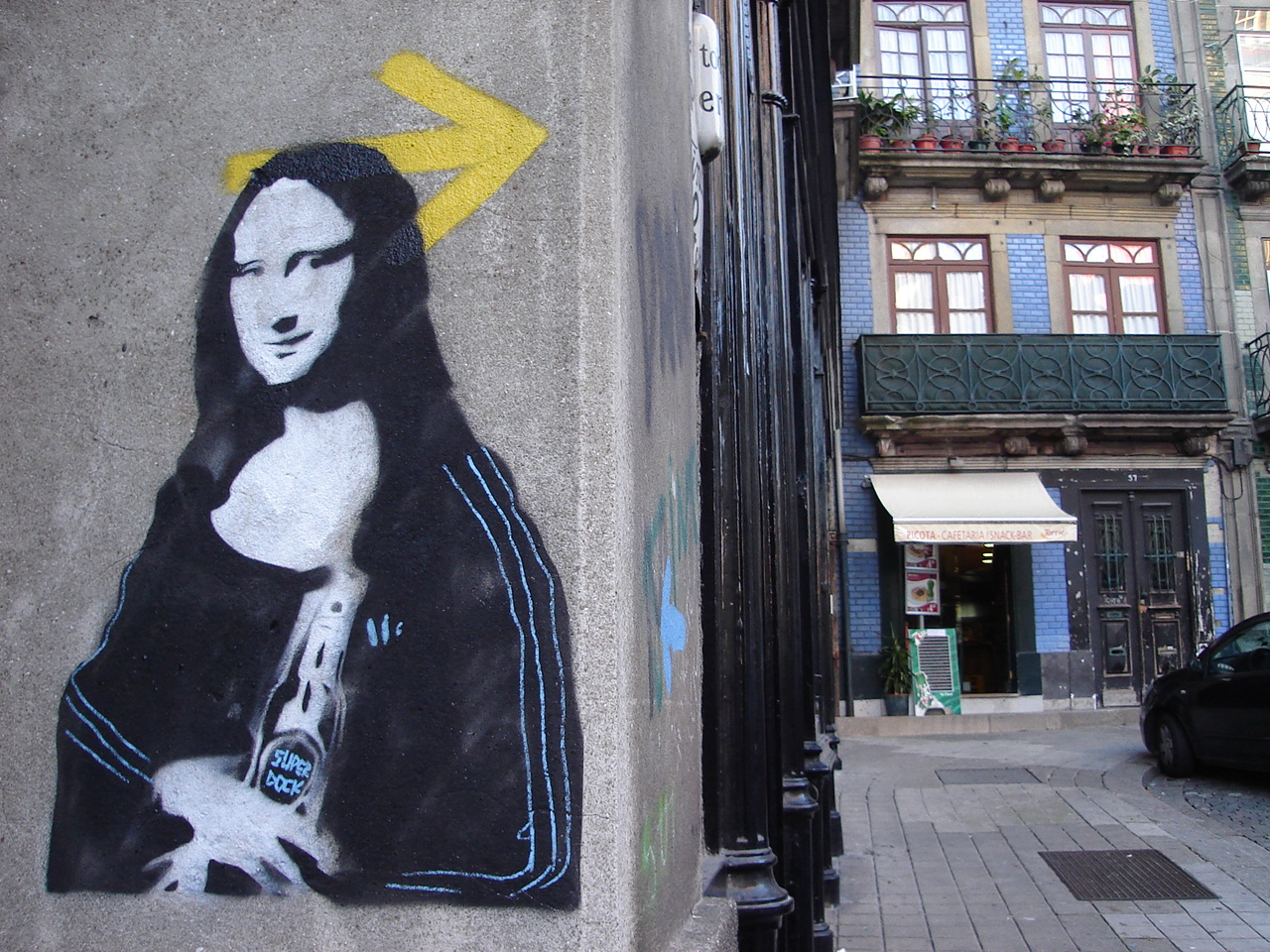 Mona Lisa, graffiti, painted by CostaH ( Porto, Portugal